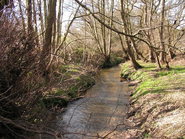 Woods & Stream Early stages of the River Wheelock